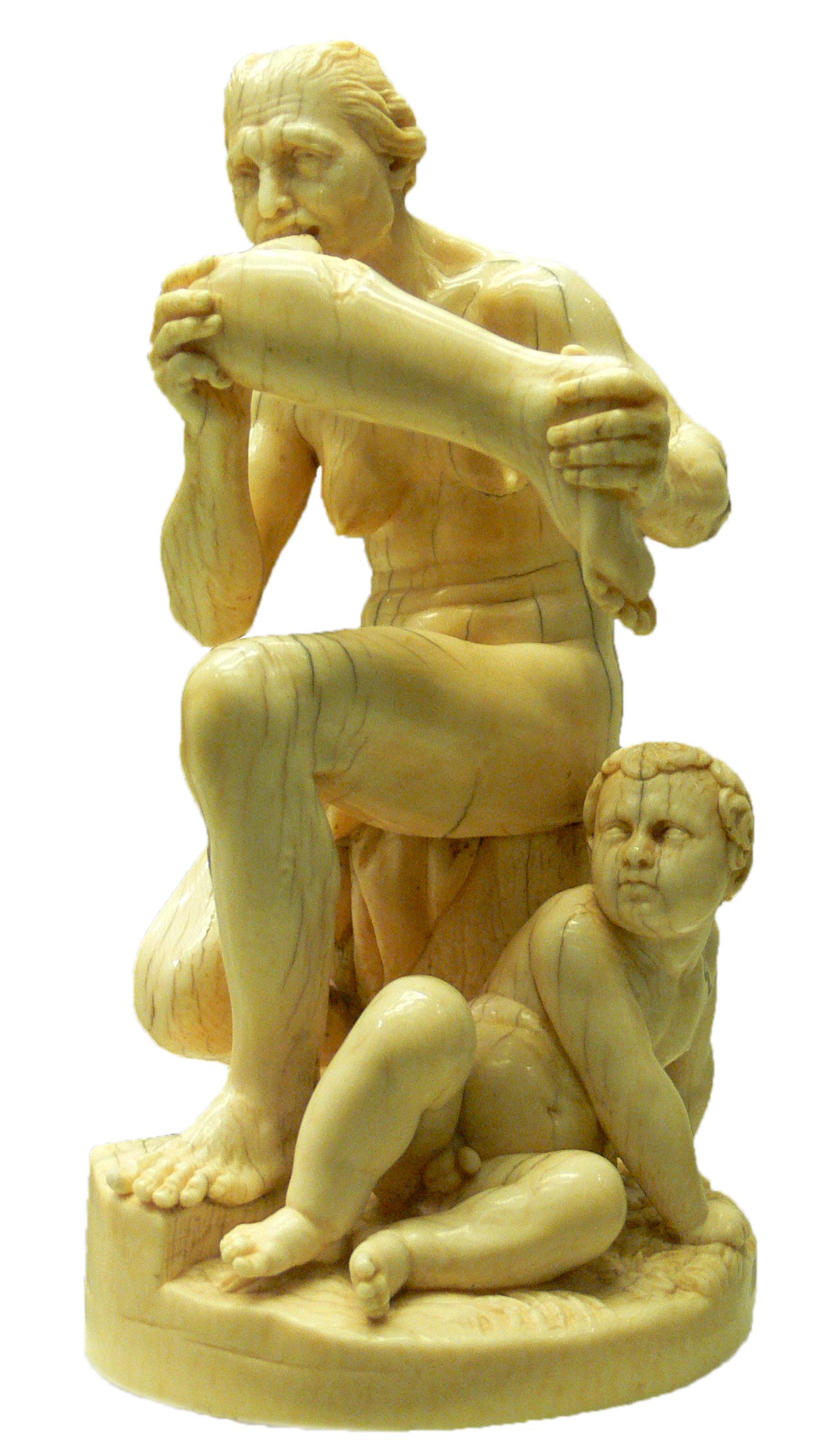 Leonhard Kern (1588–1662) Description German sculptor Date of birth/death22 November 15884 April 1662Location of birth/deathForchtenbergSchwäbisch HallAuthority control VIAF: 32791467 ISNI: 0000 0000 6676 3394 ULAN: 500010178 LCCN: nr91008529 WGA: KERN, Leonhard WorldCat Menschenfresserin (female cannibal) Ivory, Schwäbisch Hall, c. 1650 Württembergisches Landesmuseum Stuttgart, Inv. 1988-332